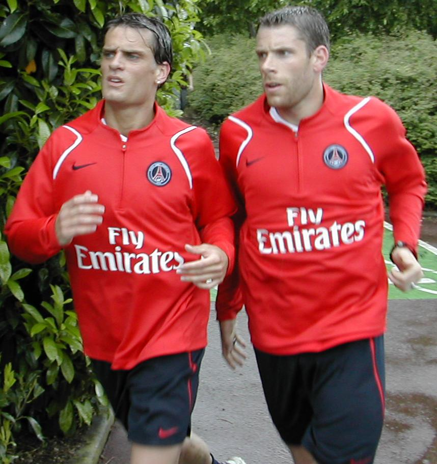 Jérôme Rothen (left), and Sylvain Armand (right), French soccer players from the Paris Saint-Germain, in the Camp des Loges (Saint-Germain-en-Laye).